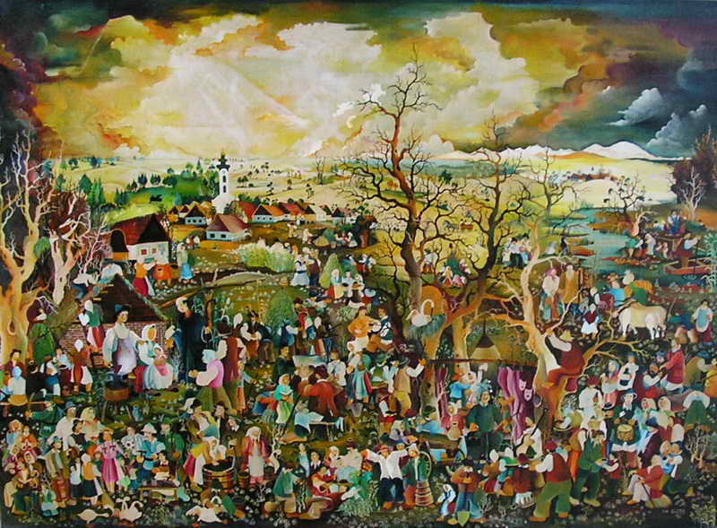 Painting by artist Jan Glozik, name: 190 years of Kovacica, technique: oil on canvas, year: 1992